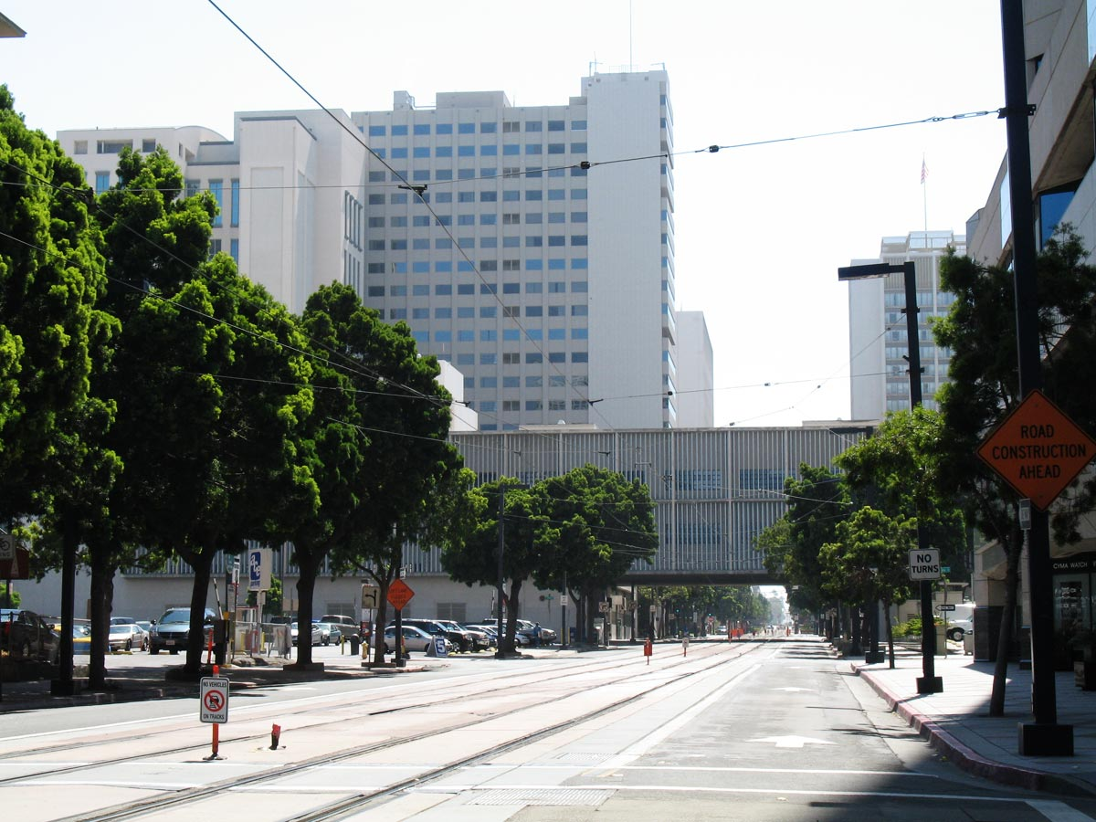 Columbia and C. Saturday, San Diego, CA